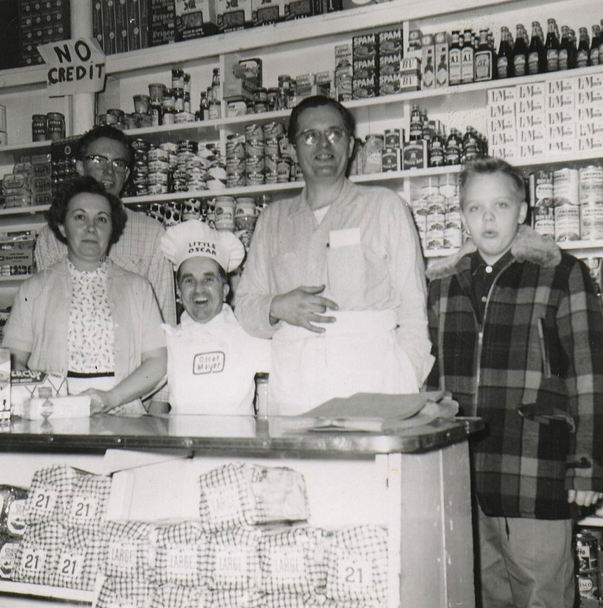 Photo of George Molchan as Little Oscar posing with what appears to be the owners of a Mom and Pop grocery and a young boy.